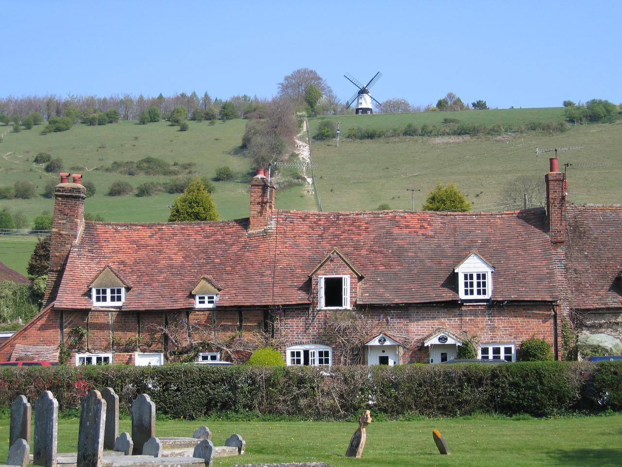 Houses in Turville, Buckinghamshire, taken from the churchyard of St Mary's church, with Cobstone Windmill in the background.